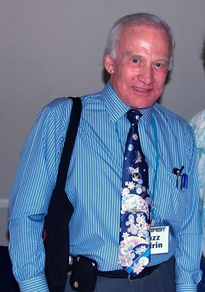 I personally took this photo of NASA astronaut Buzz Aldrin in San Diego. Please acknowledge "Phil Konstantin" as the creator of this photograph.